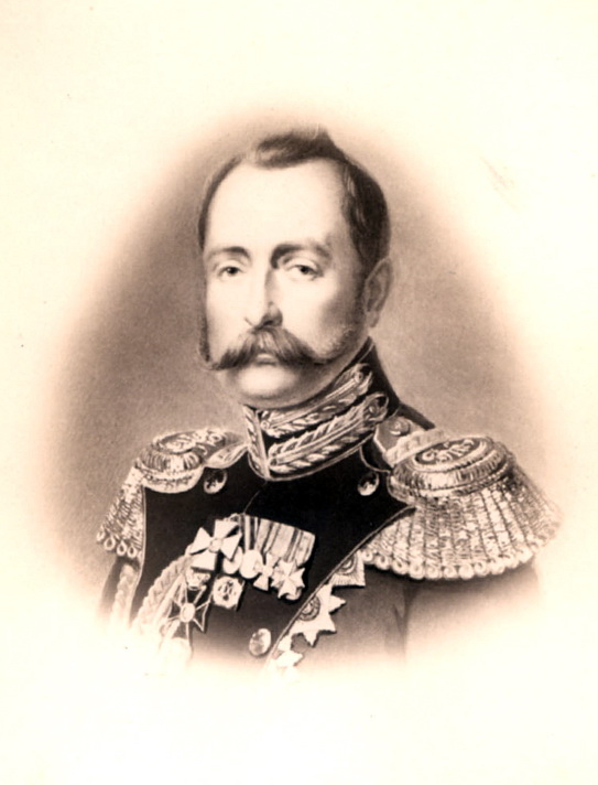 The Grand Duke Mikhail Pavlovich, the founder of the Mikhailovskoye artillery school (Saint-Petersburg, Russia)